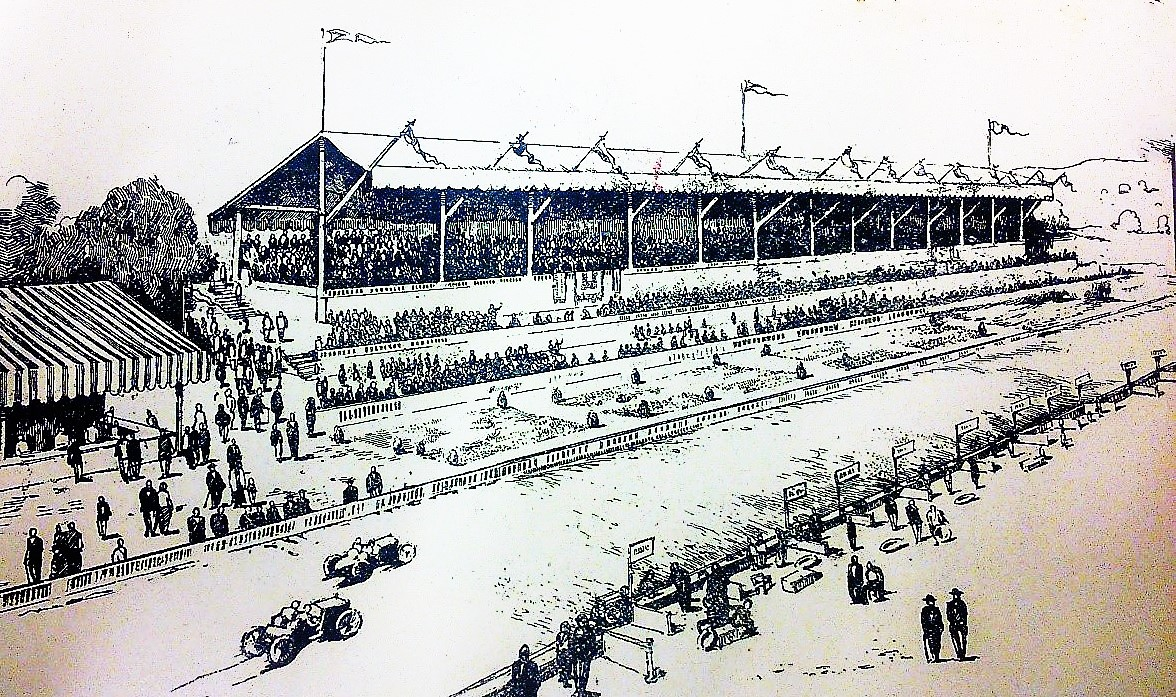 La recta de tribunes del Circuit de Vilafranca del Penedès en la cursa de 1921, dibuix de l'època